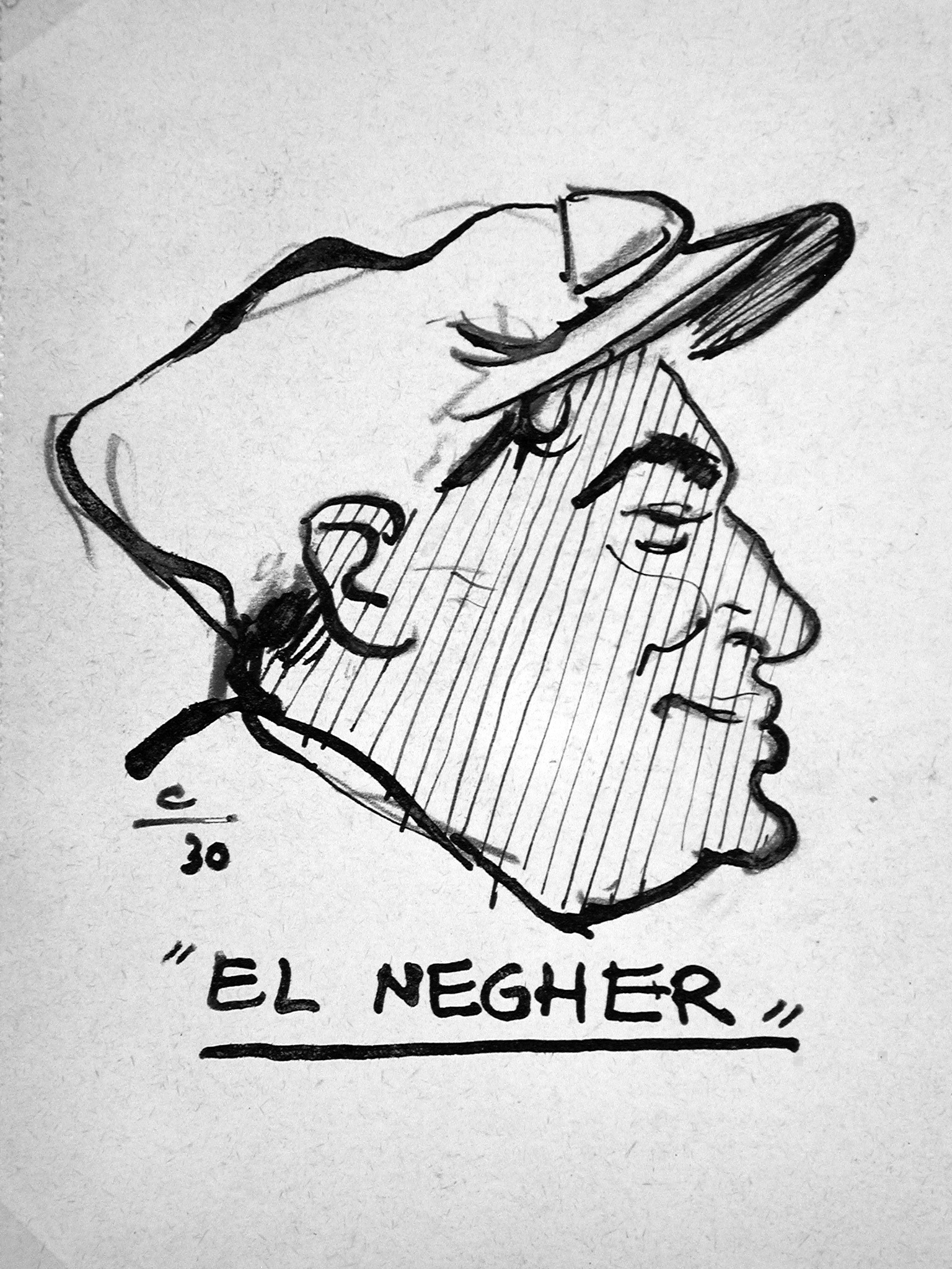 Caricature of Giuseppe Campari. Signed and dated "C. 30".